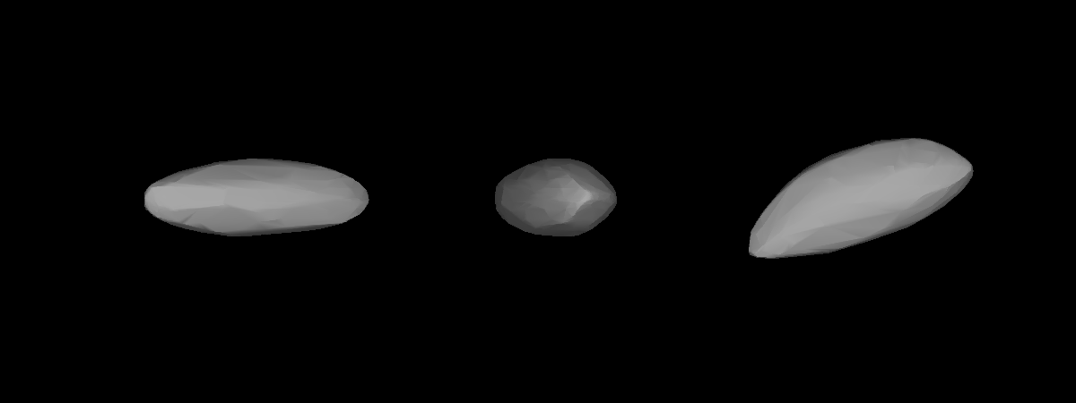 A three-dimensional model of 1620 Geographos that was computed using light curve inversion techniques.